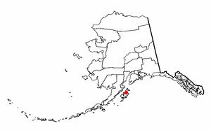 Adapted from Wikipedia's AK borough maps by Seth Ilys.